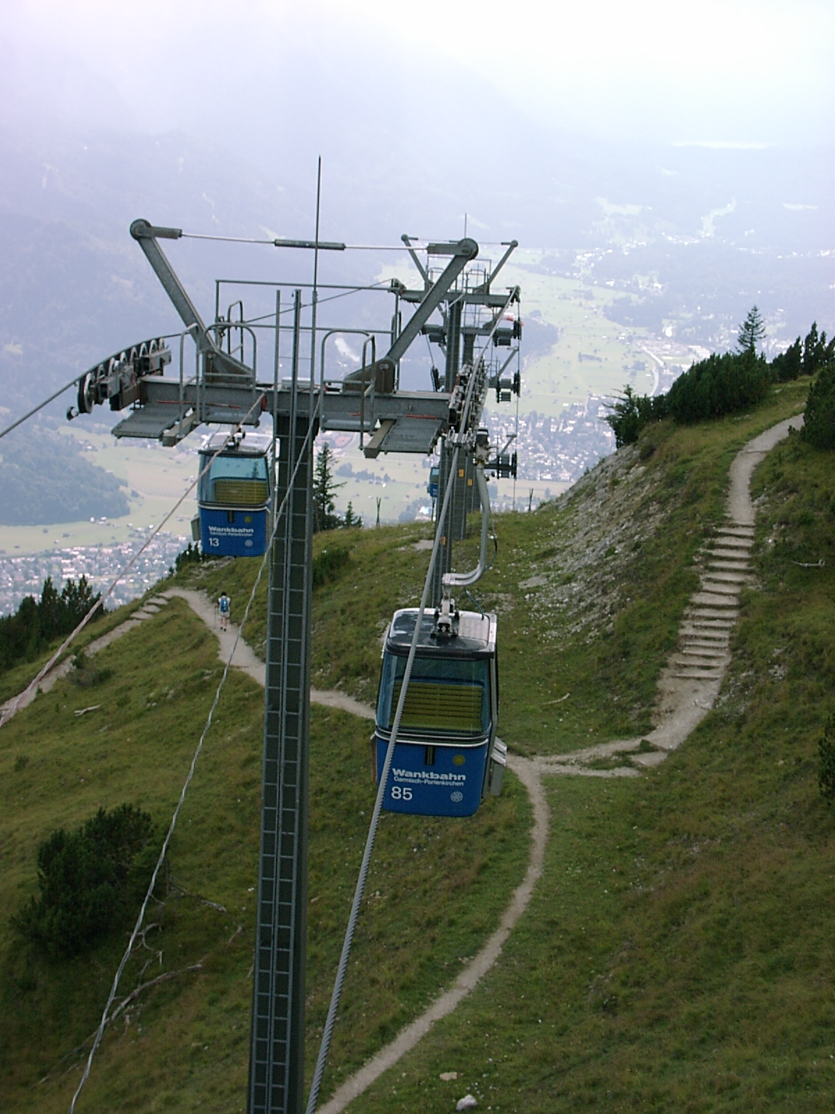 Cableway to the Wank mountain (1780 m) near Garmisch-Partenkirchen